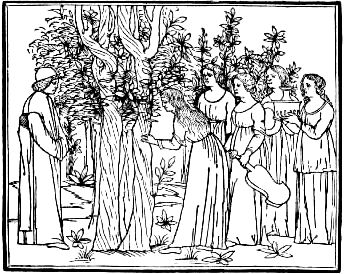 Illustration from Hypnerotomachia Poliphili, by anonymous, AldusManutius Venice 1499